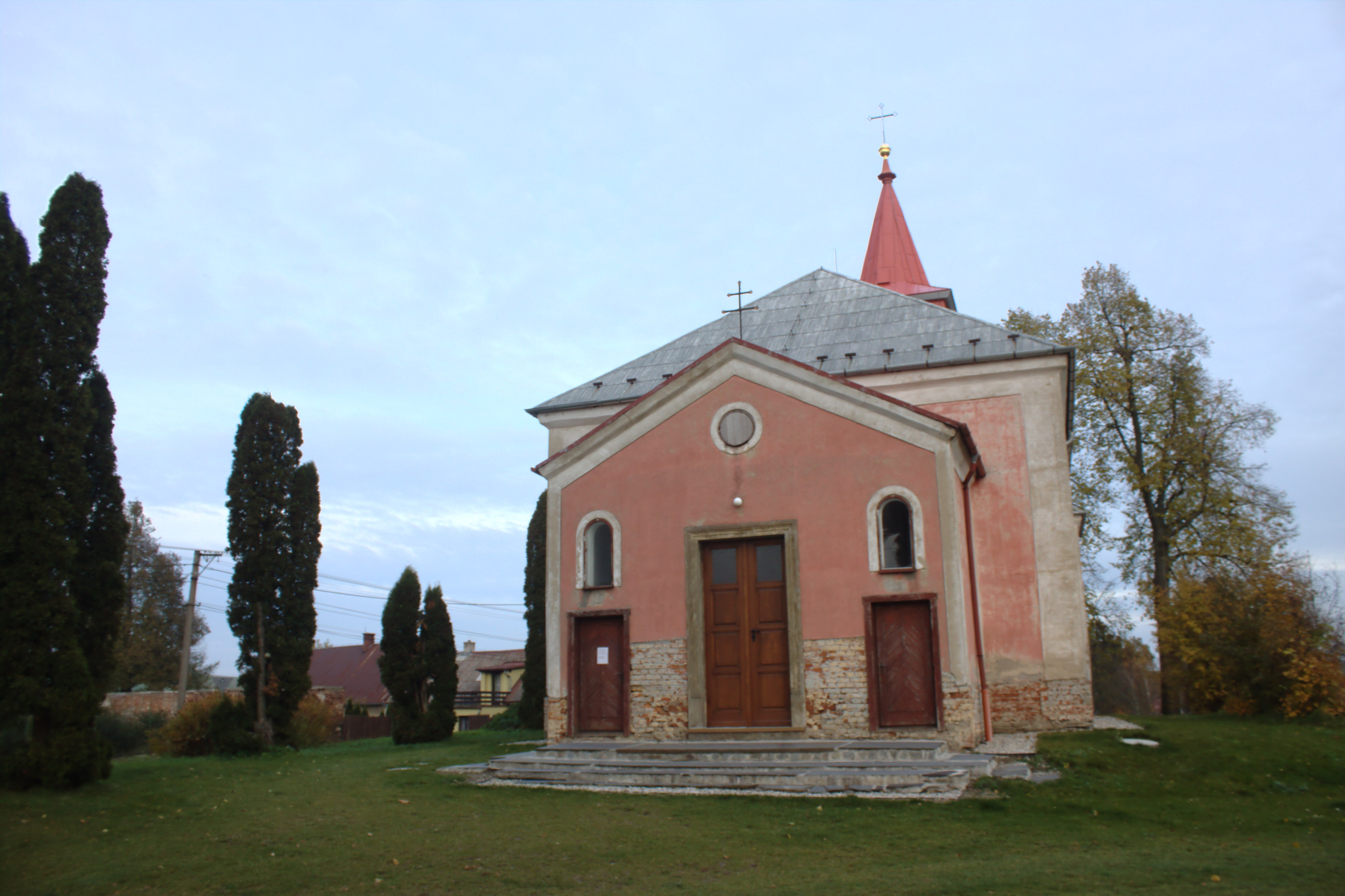 St. Isidore Church in Horní Loděnice, CZ